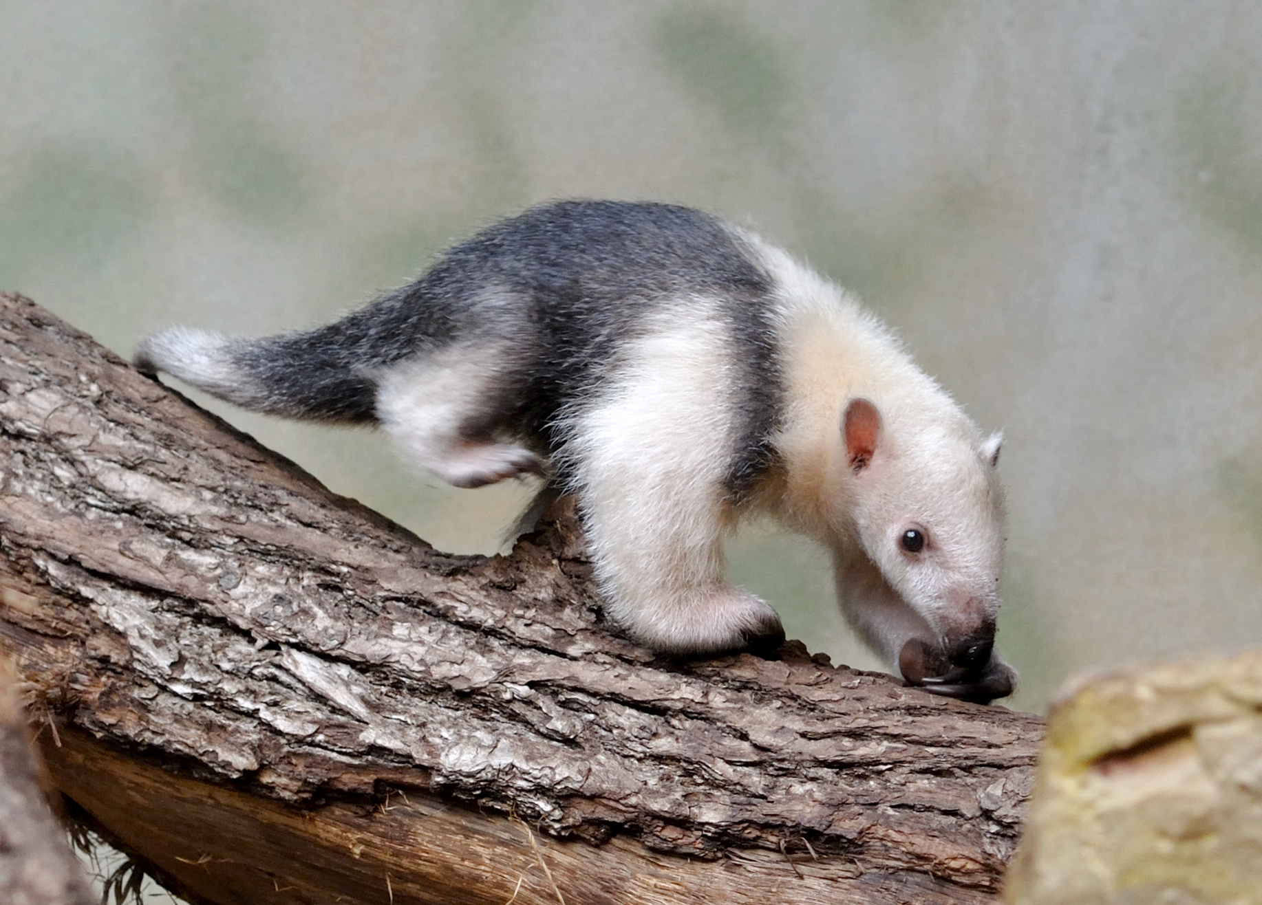 Southern Tamandua (Tamandua tetradactyla) in the Frankfurt Zoo.